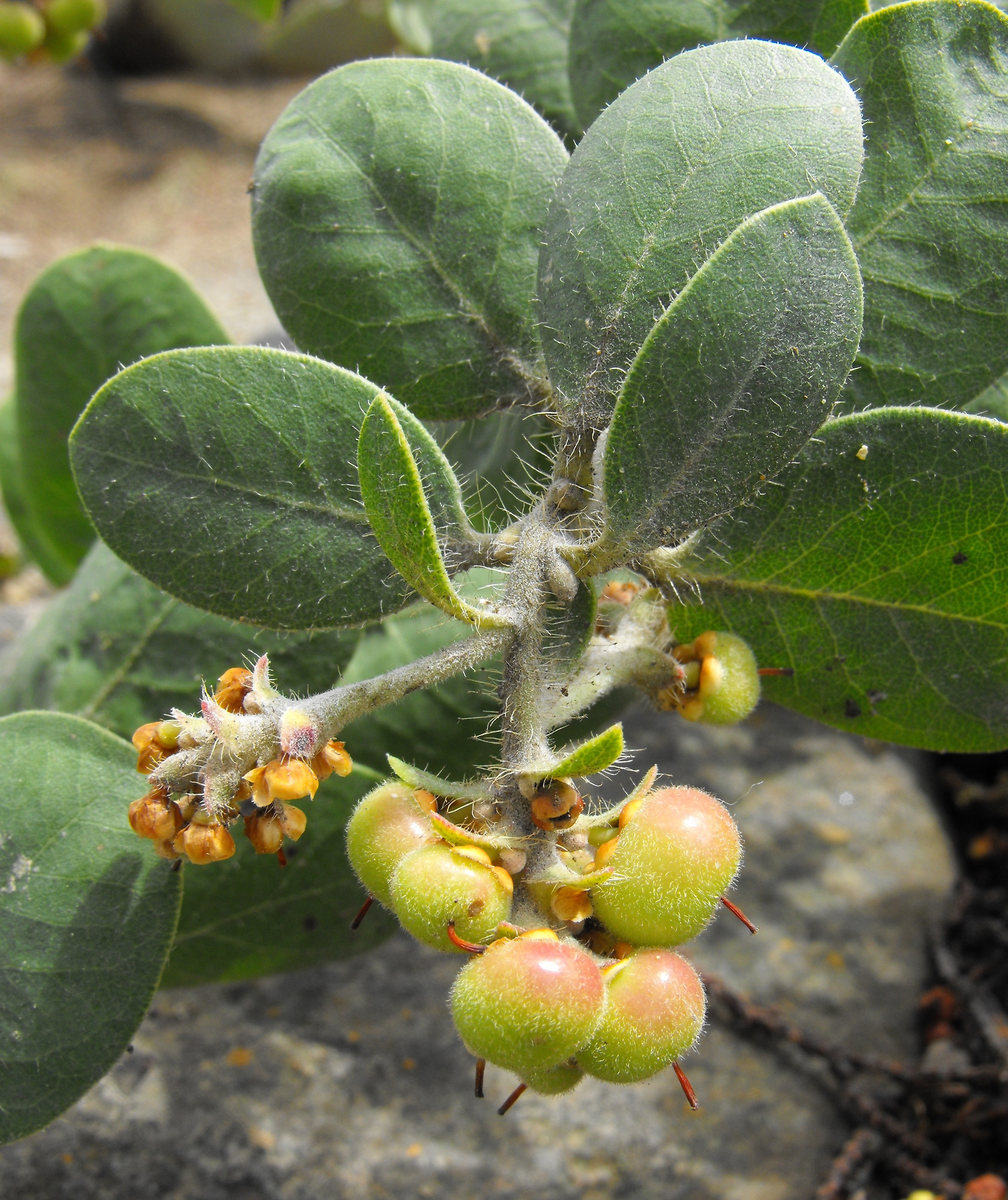 Arctostaphylos confertiflora at the UC Berkeley Botanical Garden, California, USA. Identified by sign.